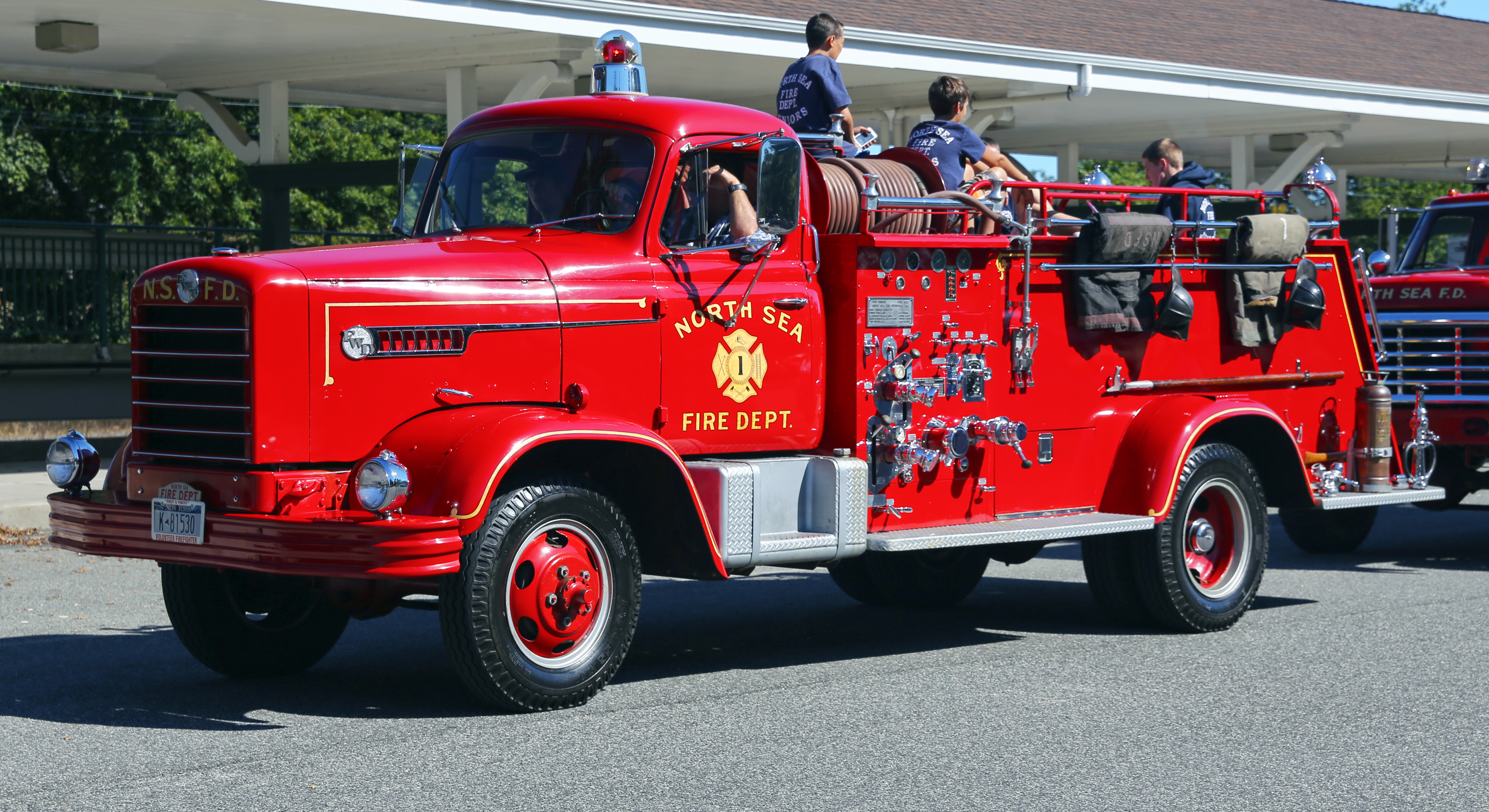 1958 FWD fire engine, belonging to the North Sea Fire Department (Long Island, NY) on a parade at the Southampton LIRR station.